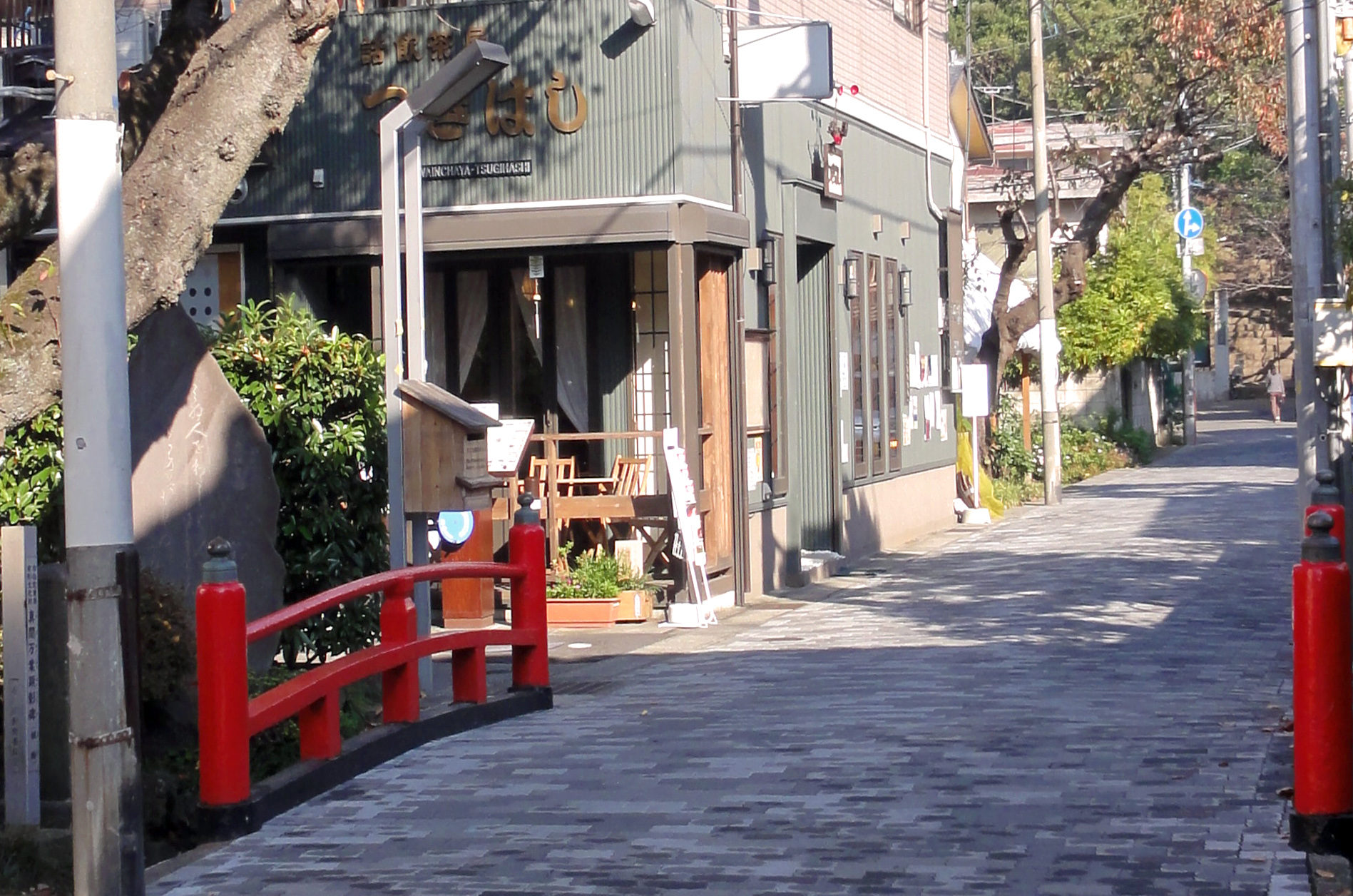 Tsugihashi of Mama bridge ,Chiba Prefecture, Japan